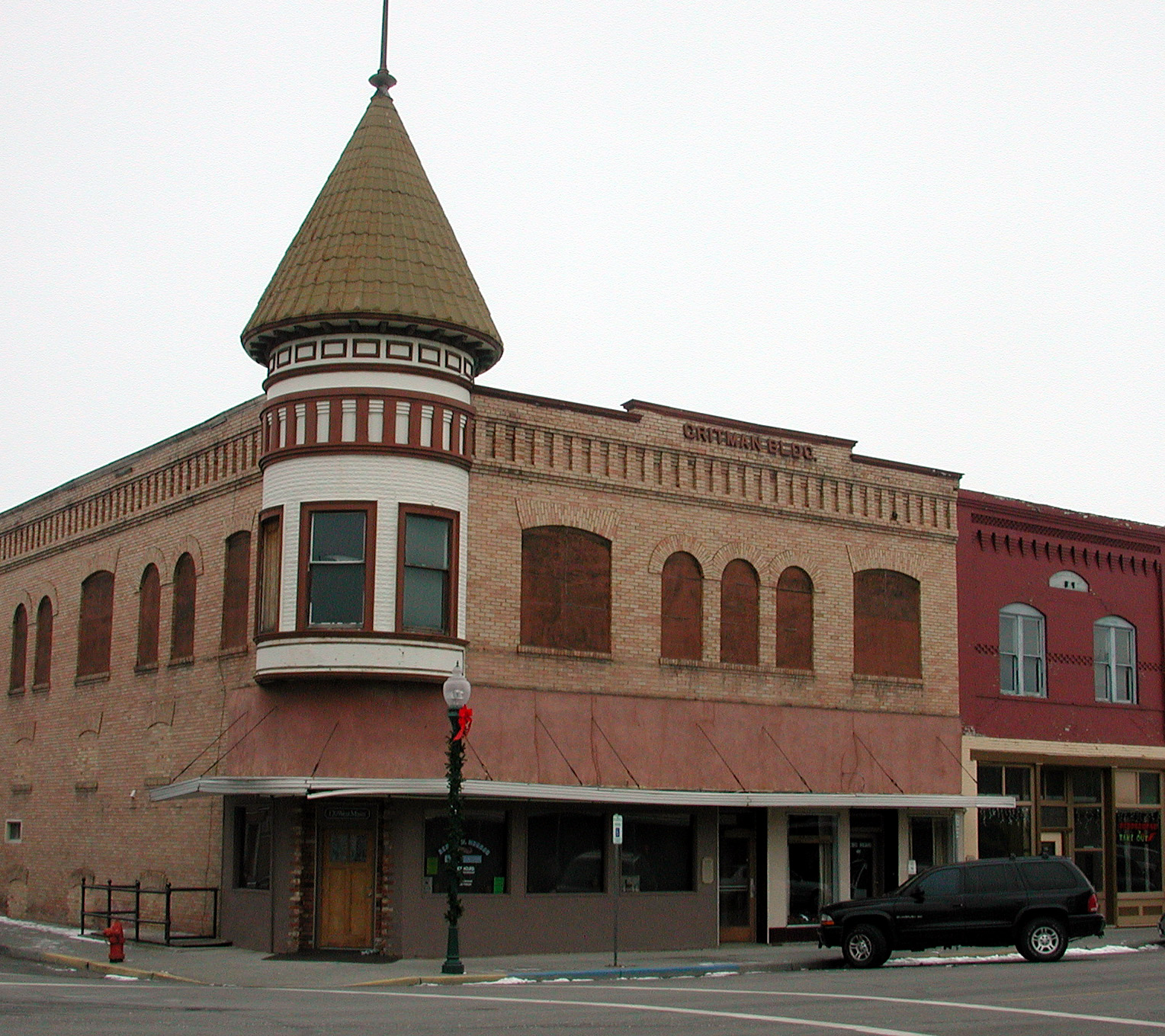 H.E. Gritman building in downtown Ritzville, Washington. The building is part of the Ritzville Historic District, added in 1990 to the National Register of Historic Places as District #90000676.